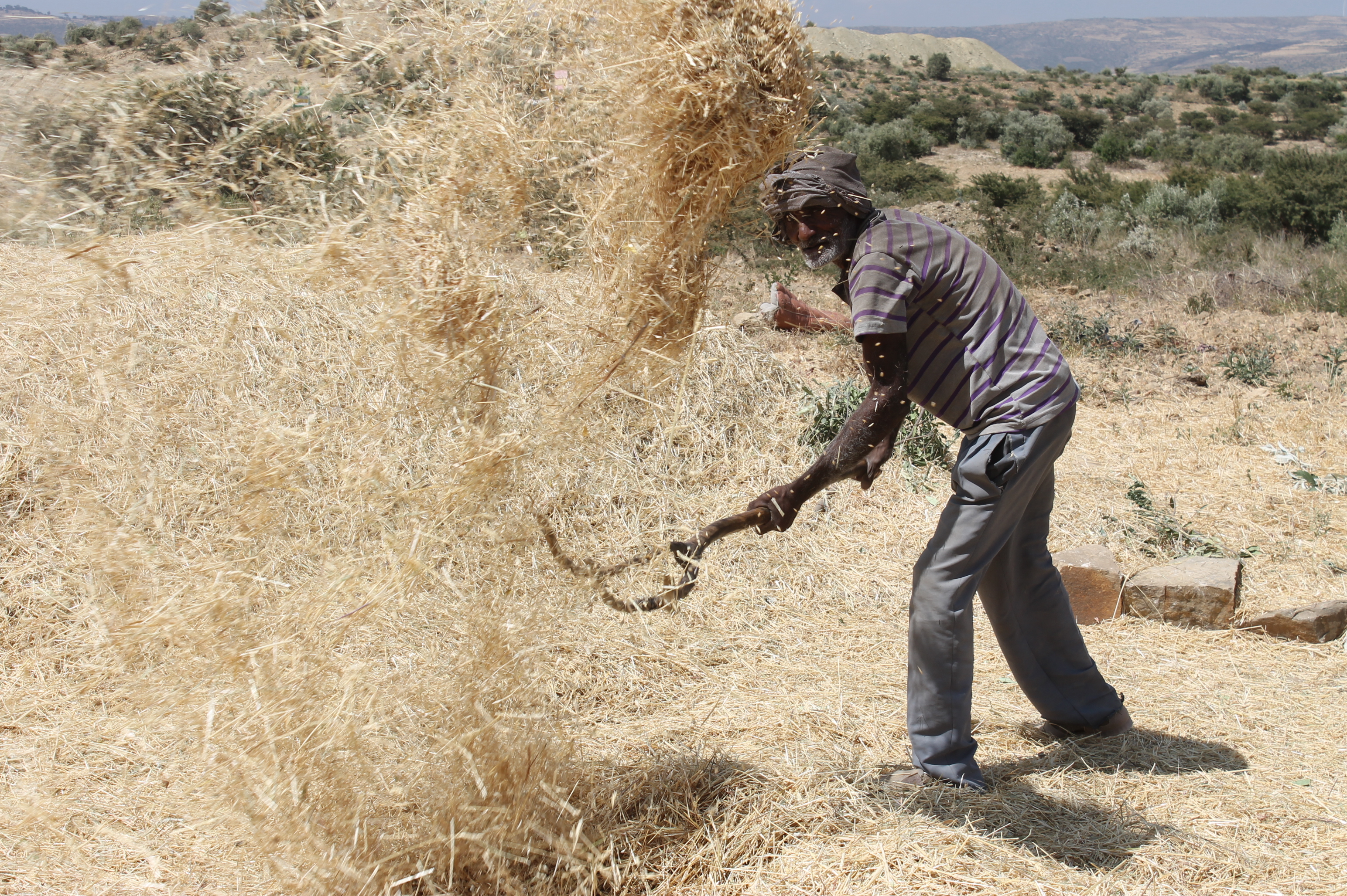 This is an image of "African people at work" from Ethiopia